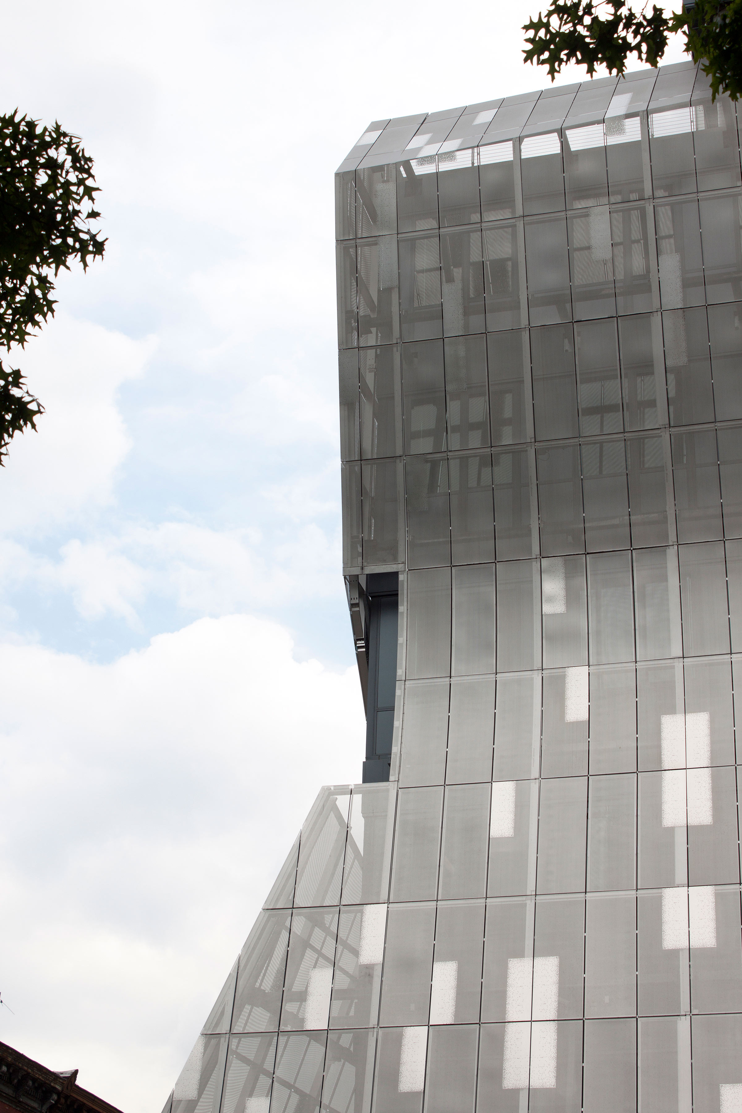 Close up of the surface of the new academic cooper union building by Morphosis.